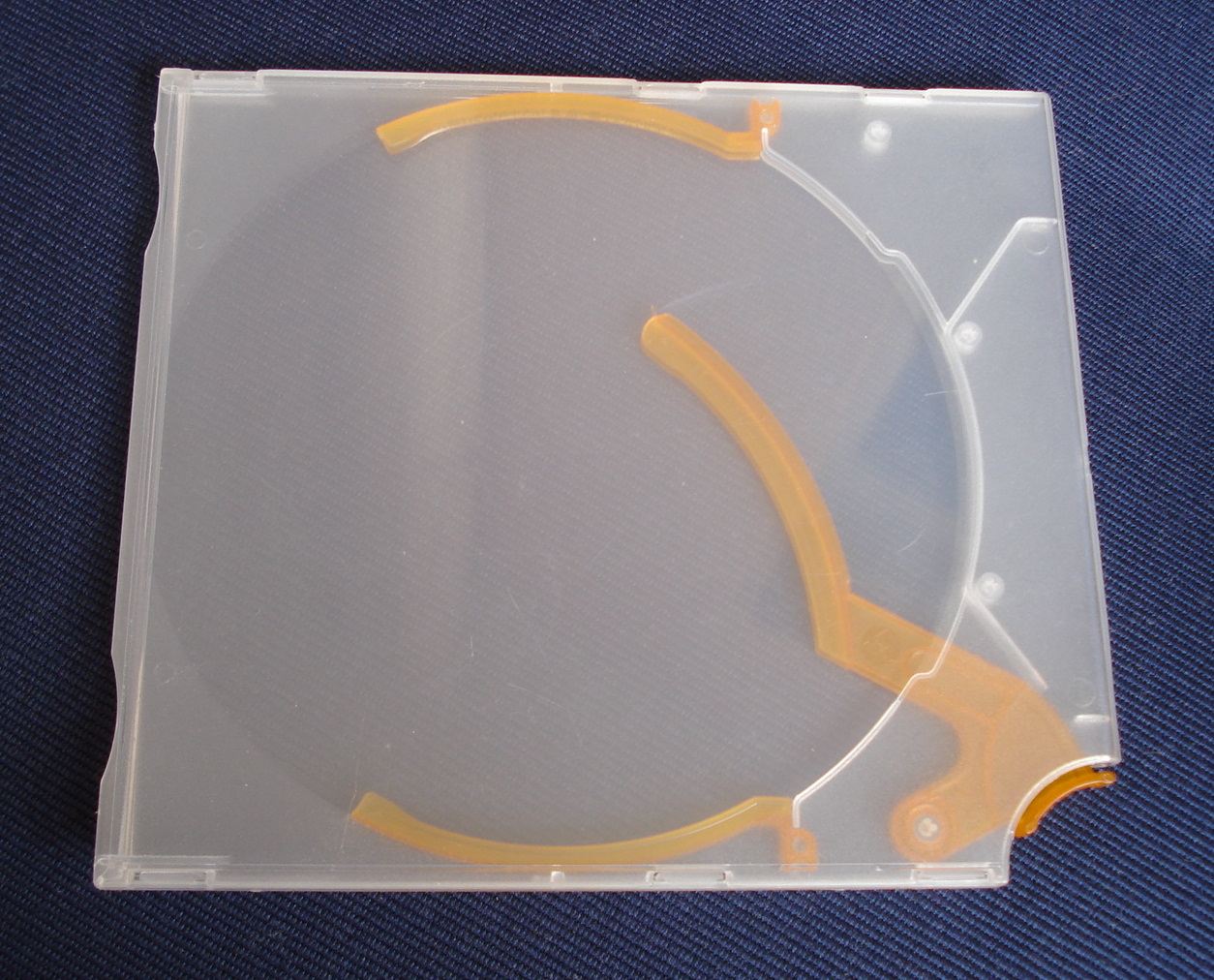 CD kick-out box made of polypropylene